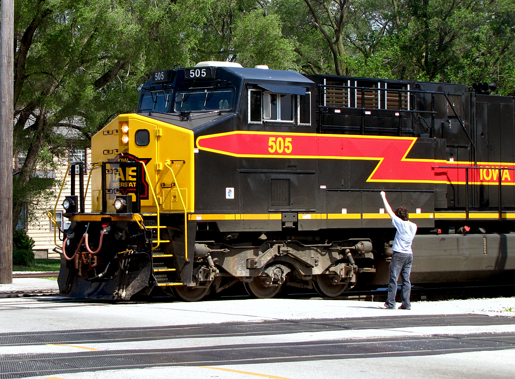 One of the new Iowa Interstate gevos enter Blue Island on the IHB as my brother Trevor salutes the wonderful paint scheme on 505.